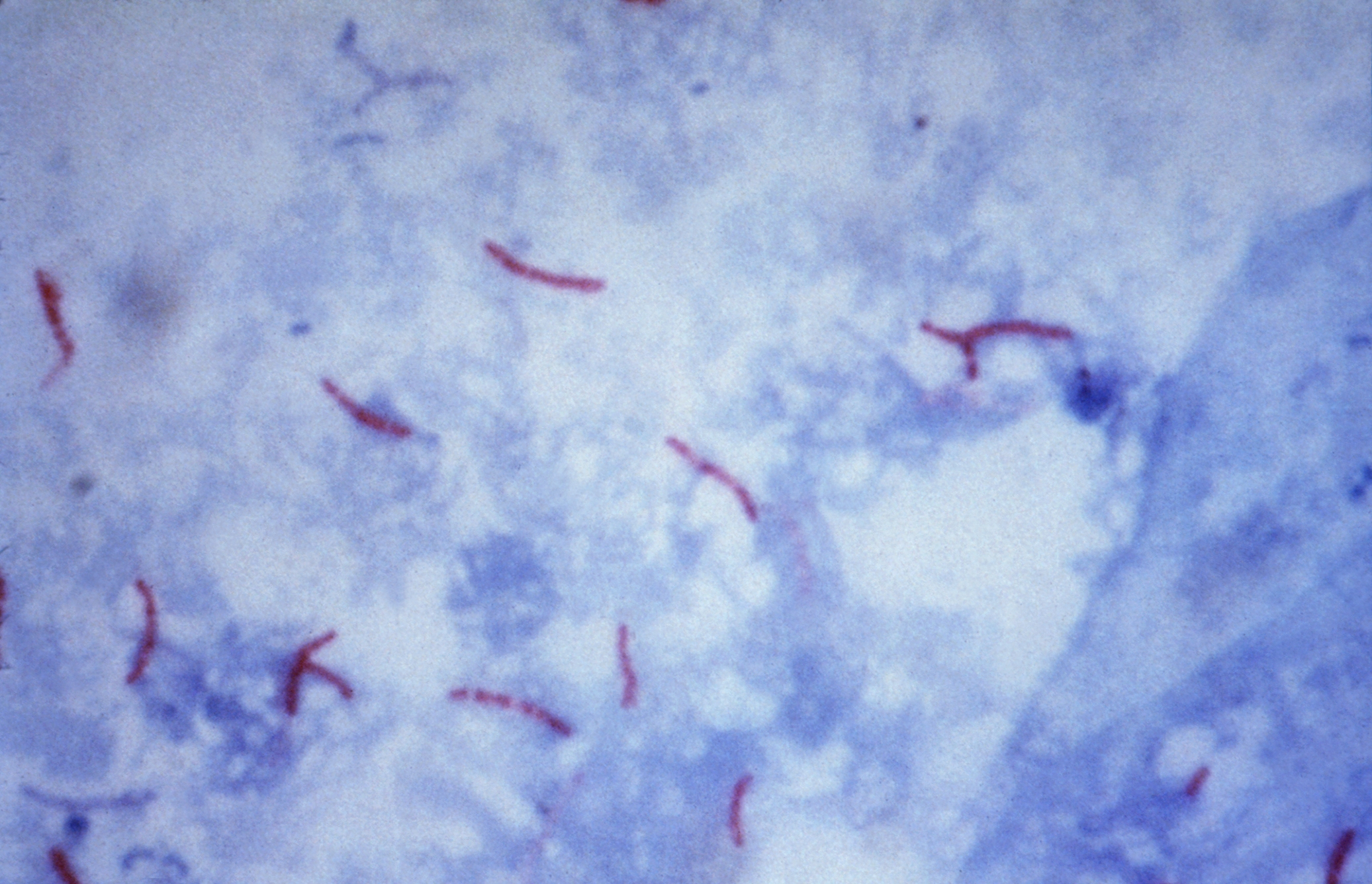 This photomicrograph reveals Mycobacterium tuberculosis bacteria using acid-fast Ziehl-Neelsen stain; Magnified 1000 X. The acid-fast stains depend on the ability of mycobacteria to retain dye when treated with mineral acid or an acid-alcohol solution such as the Ziehl-Neelsen, or the Kinyoun stains that are carbolfuchsin methods specific for M. tuberculosis.